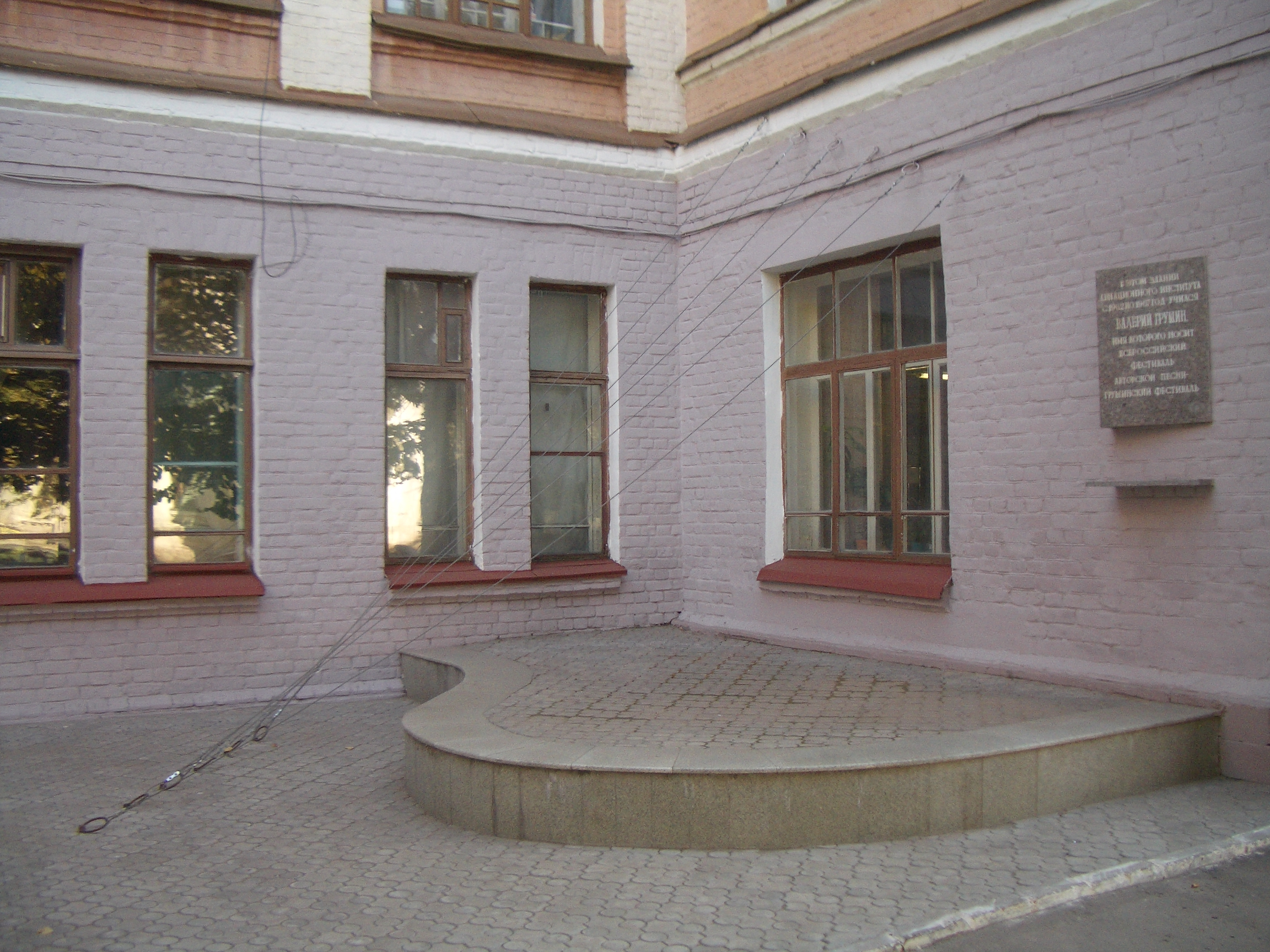 Memorial composition devoted to Valery Grushin, Samara, Russia